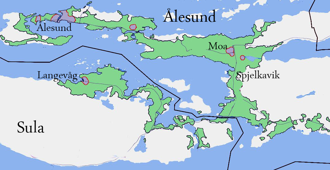 Map of the town of Ålesund, based on maps from SSB